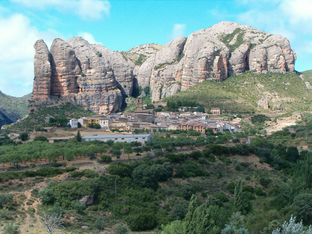 Aguero is a beutiful town situated in the province of Huesca, Aragona, Spain.